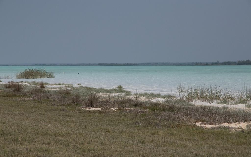 flats along east shore of Lake Tsimanapetsosa